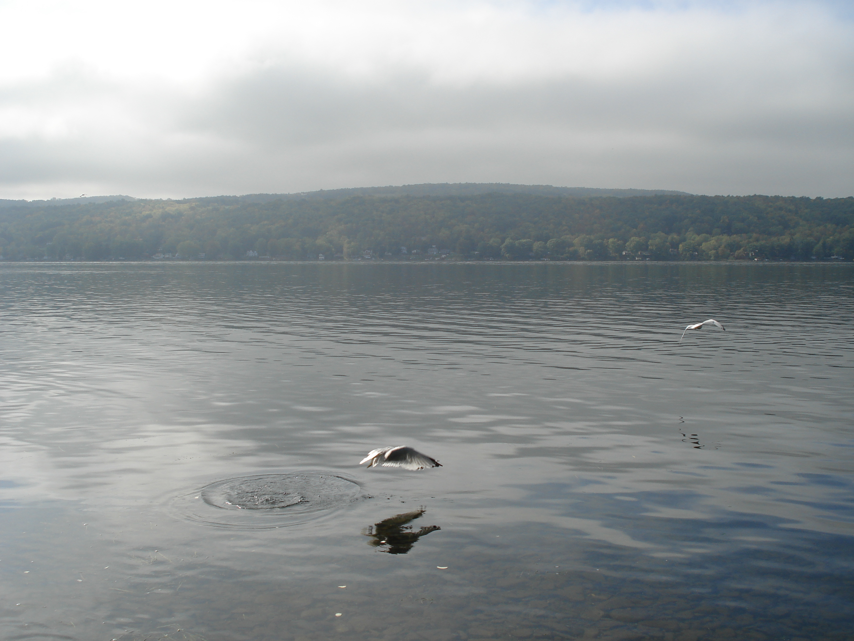 View of Honeoye Lake